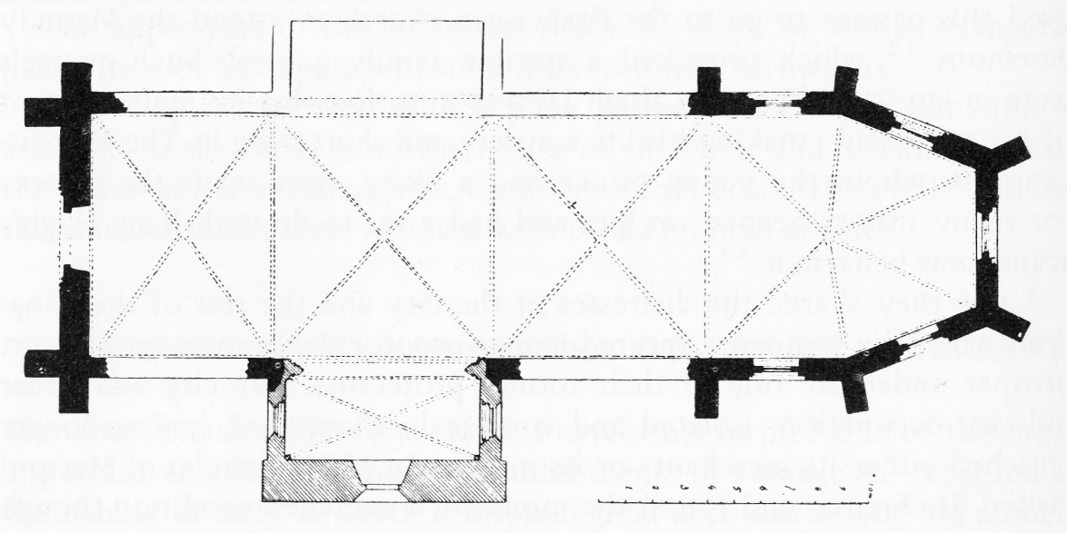 Franciscan Church, Famagusta